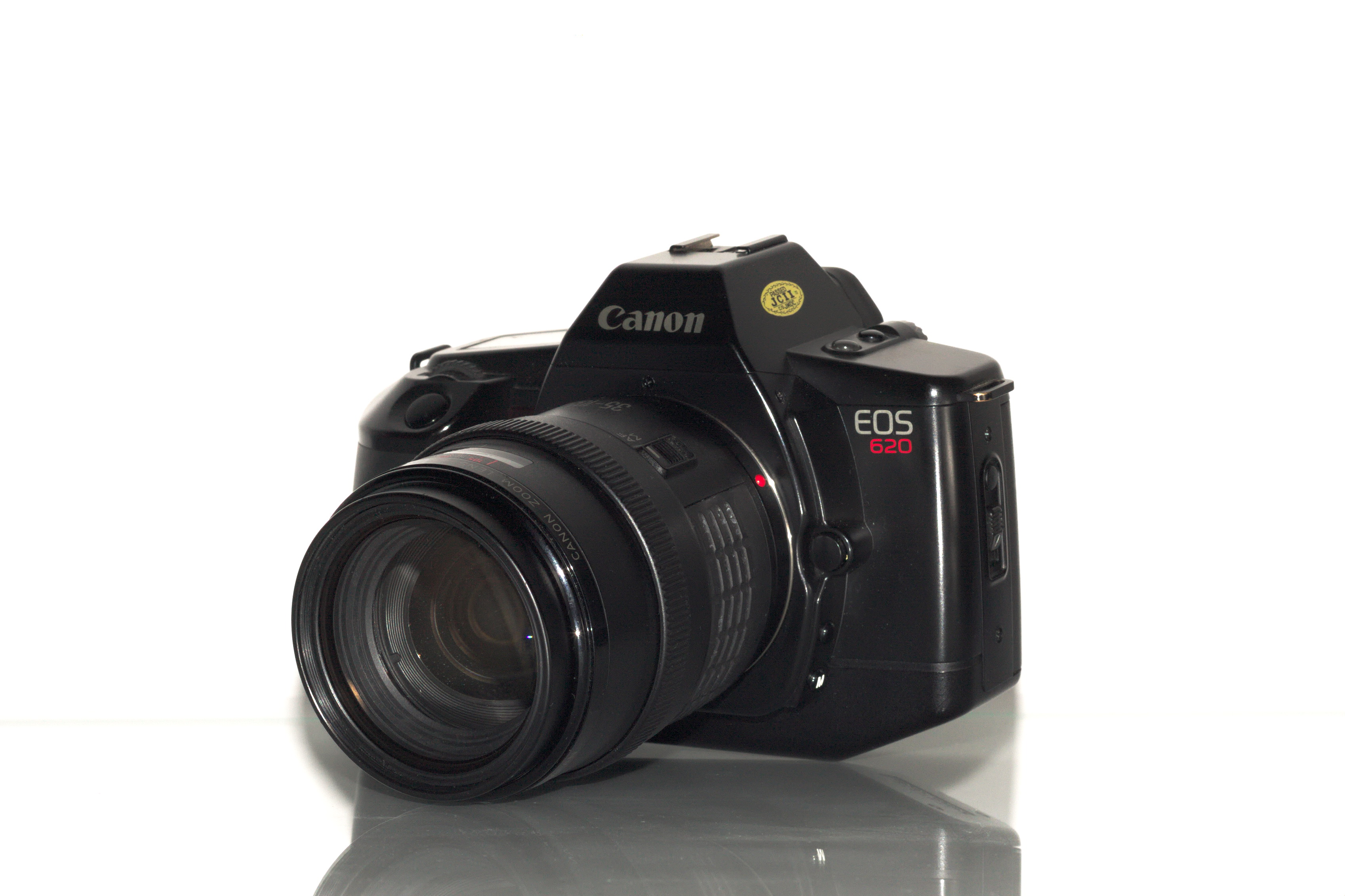 Canon EOS 620 with EF 35-105 f/3.5-4.5